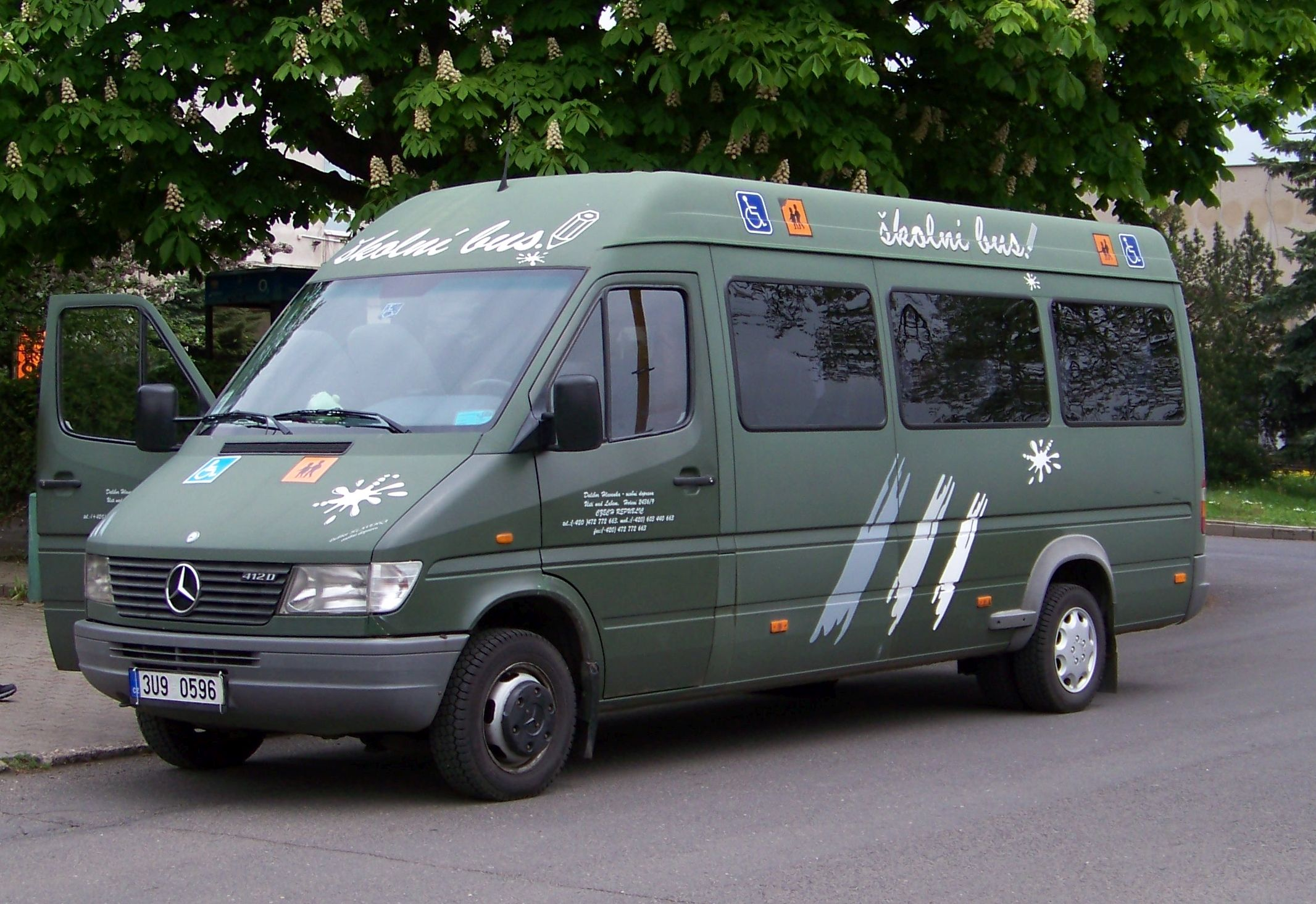 Chlumec, Ústí nad Labem District, Ústí nad Labem Region, Czech Republic. Ústecká street, a school bus.